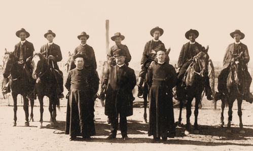 The Cavalry of Christ. Oblate missionaries who traveled on horseback 19th century to minister to Catholics living on isolated ranches in Texas and northern Mexico. The photo was published in newspapers in 1912. According to the Oblates' website, the Cavalry of Christ was active from 1849 to 1904. Presumably their activities tapered off gradually.